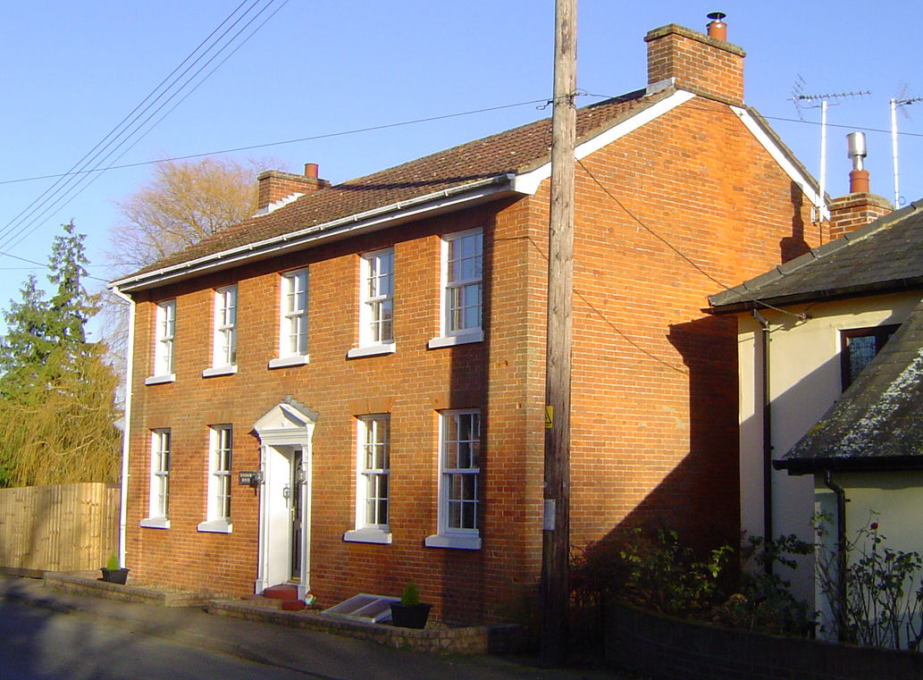 The former King William Inn, Bury Road, Lawshall, Suffolk. The public house closed in the 1940s.